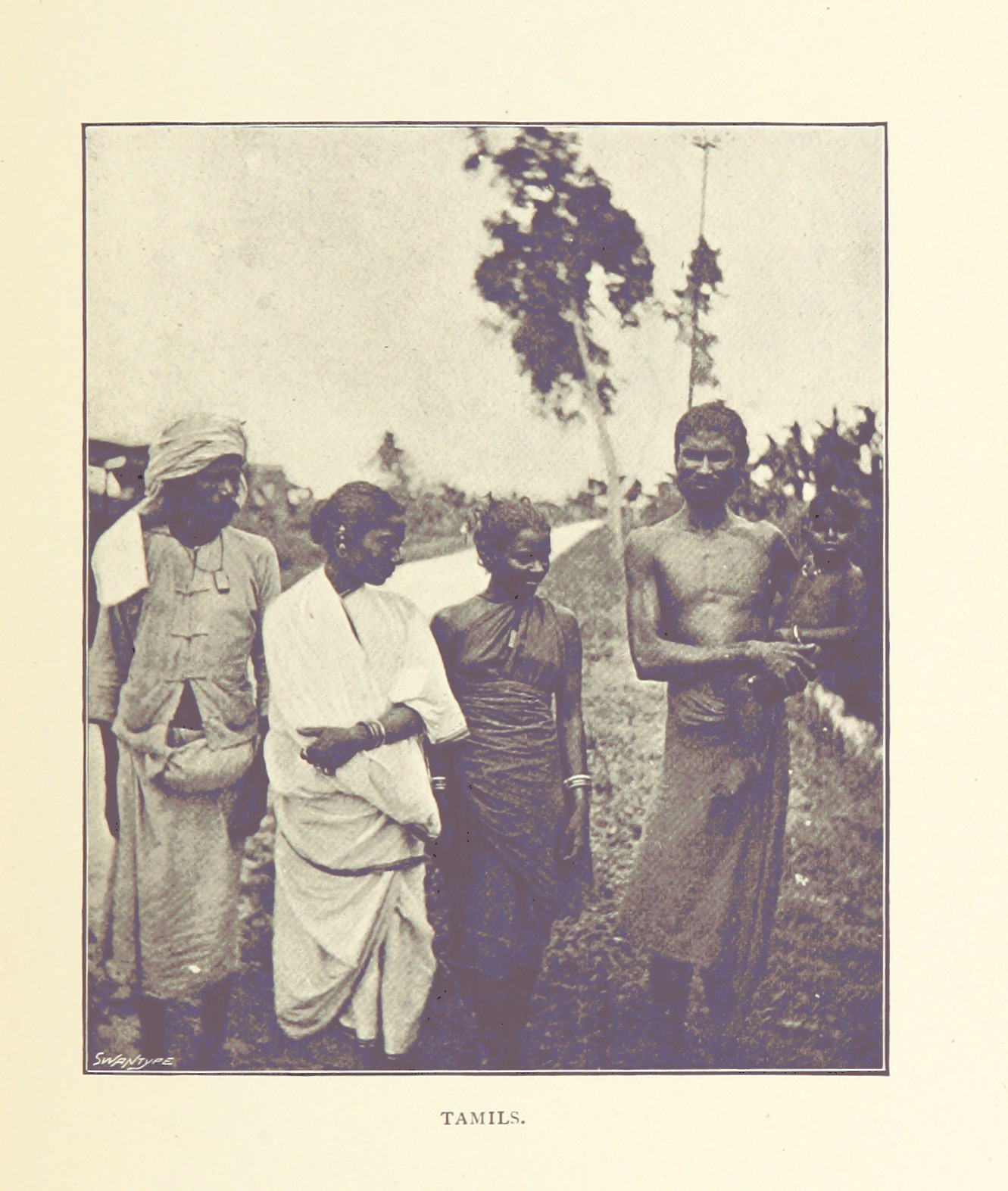 Image taken from: Title: "Camping and Tramping in Malaya: fifteen years' pioneering in the native states of the Malay peninsula" Author: RATHBORNE, Ambrose B. Shelfmark: "British Library HMNTS 010055.ee.10." Page: 101 Place of Publishing: London Date of Publishing: 1898 Publisher: Swan Sonnenschein & Co. Issuance: monographic Identifier: 003043901 Explore: Find this item in the British Library catalogue, 'Explore'. Download the PDF for this book (volume: 0) Image found on book scan 101 (NB not necessarily a page number) Download the OCR-derived text for this volume: (plain text) or (json) Click here to see all the illustrations in this book and click here to browse other illustrations published in books in the same year. Order a higher quality version from here.